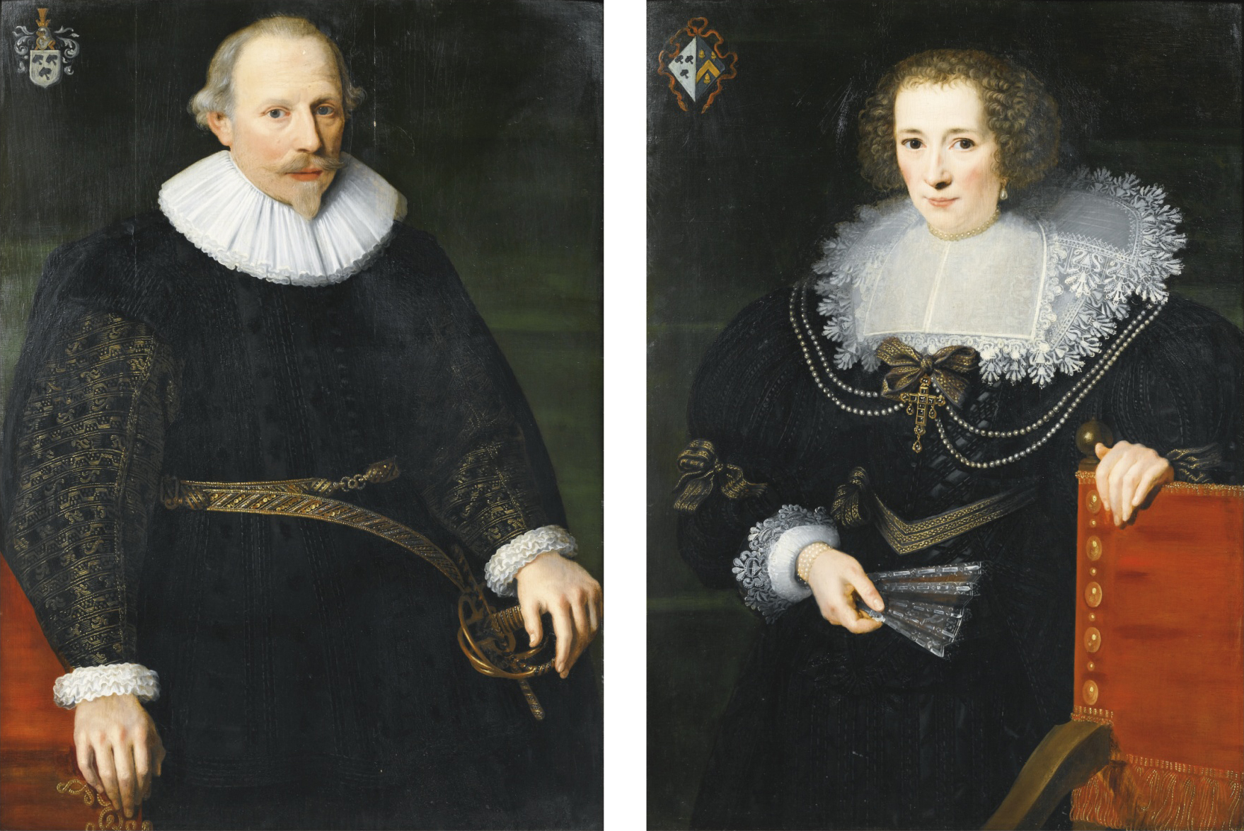 Augustin de Gottignies and Marguerite Verreycken oil on panel 96 x 69,5 cm